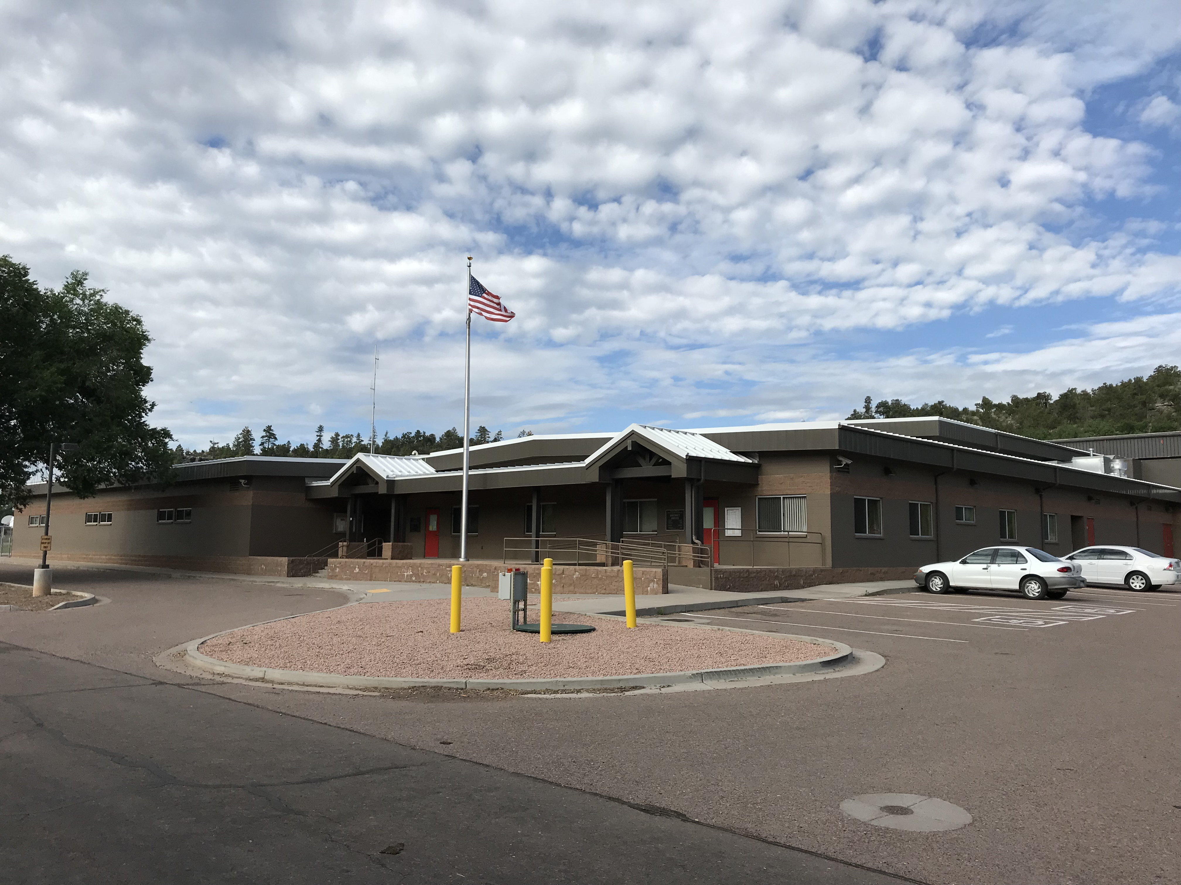 Heber-Overgaard Unified School District Front Office as viewed from Buckskin Canyon Rd.